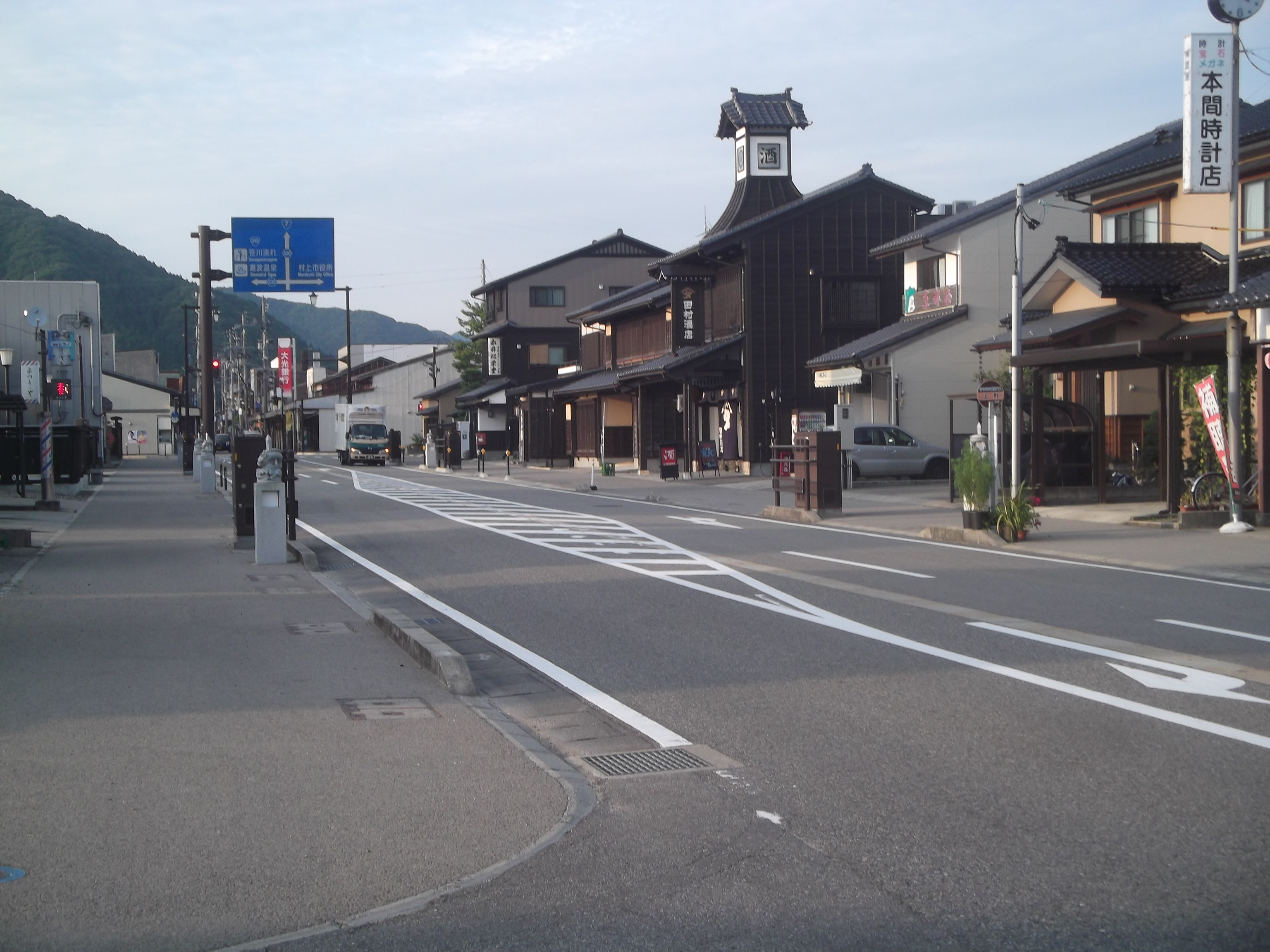 Landscape of central district of Murakami, Nigata, Japan.